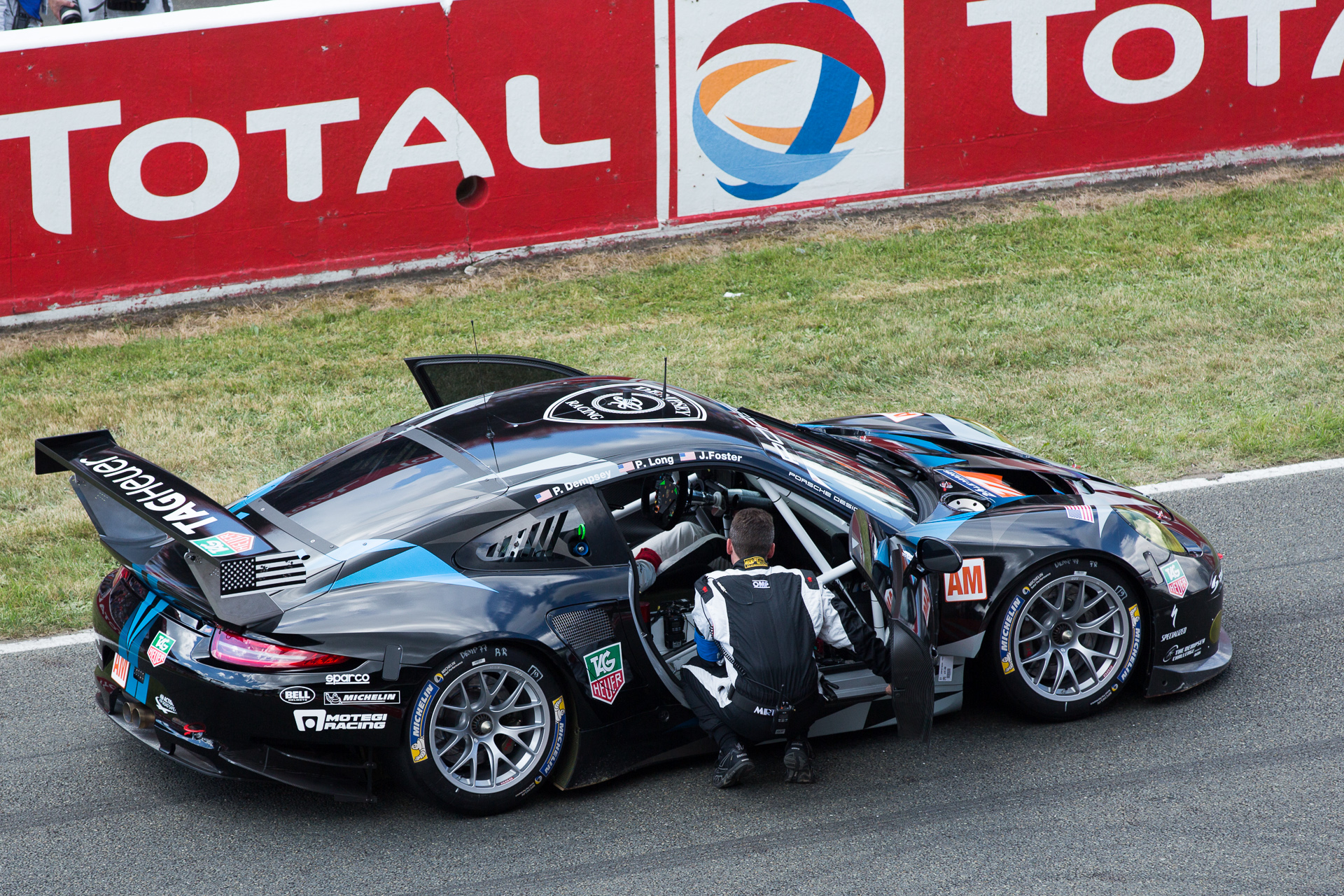 The Dempsey Racing-Proton Porsche 911 RSR on the grid for the start of the 2014 24 Hours of Le Mans.